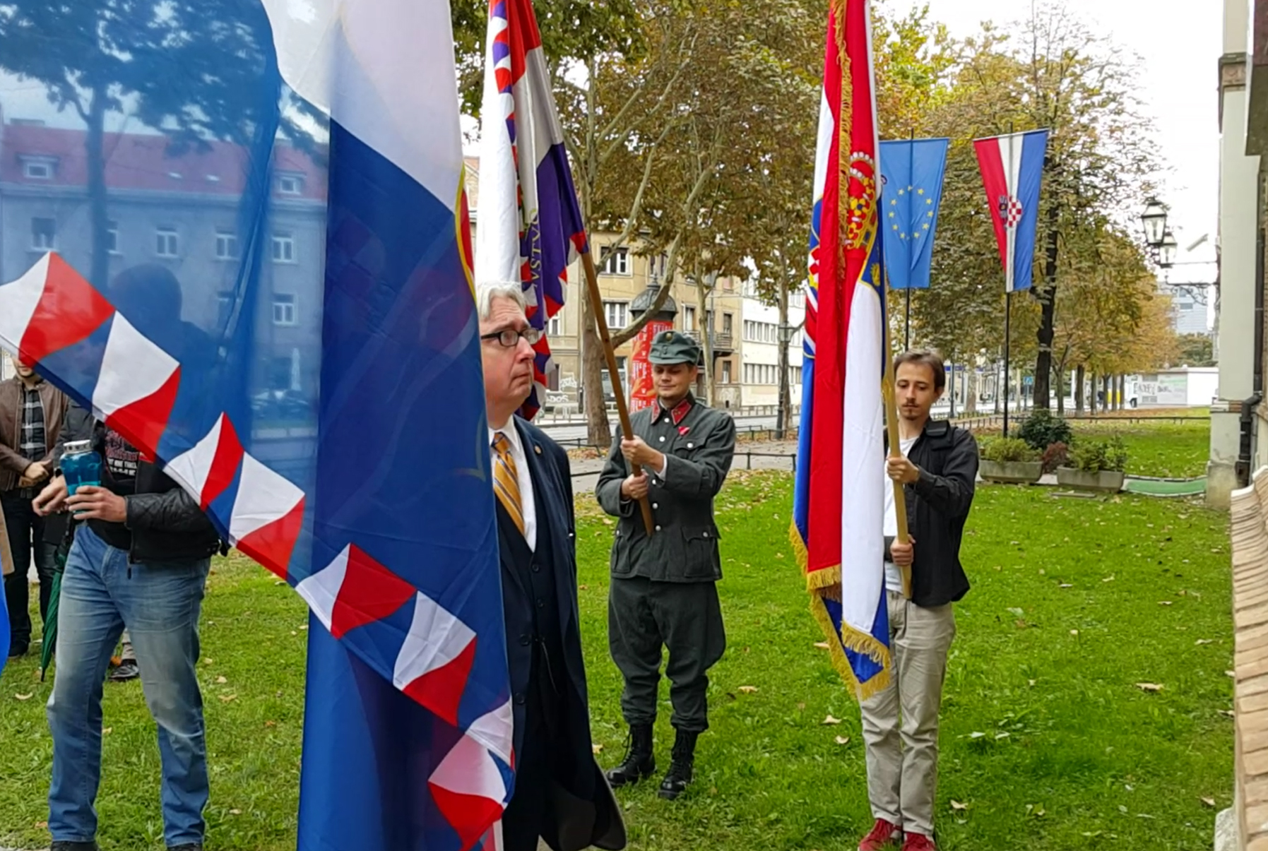 Charles A. Coulombe in front of a Great War memorial, during a WW1 commemoration in Croatia organized by Croatian monarchists and nobility